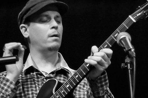 Kurt Rosenwinkel performing with Aarhus Jazz Orchestra (dir. Geir Lysne) 2016